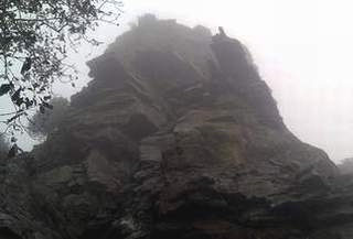 A fog-shrouded rock formation at Mount Neo, Arkansas. Such outcroppings are common and are popular with hikers/climbers.